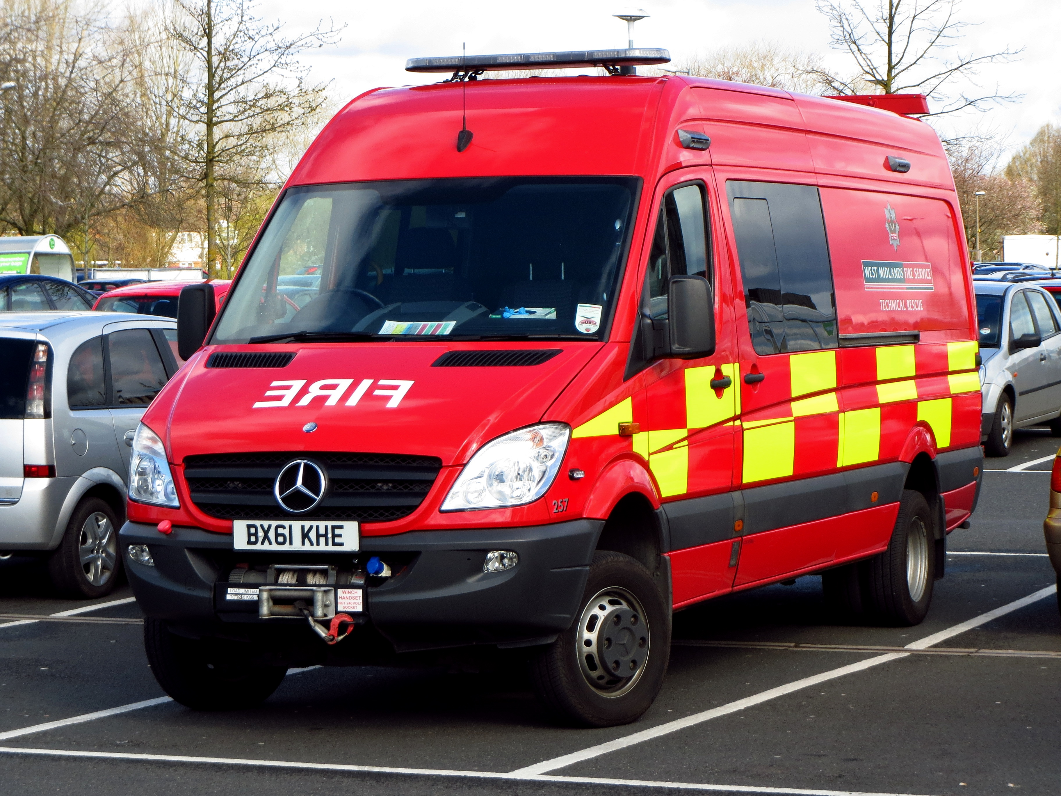 WMFS Technical Rescue Unit Rapid Response Unit